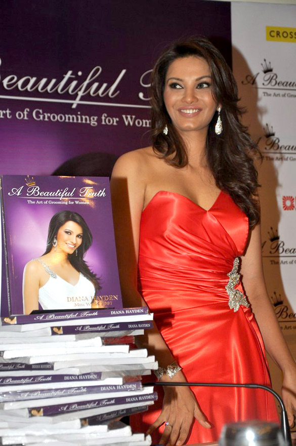 Diana Hayden launches her own book on women's grooming